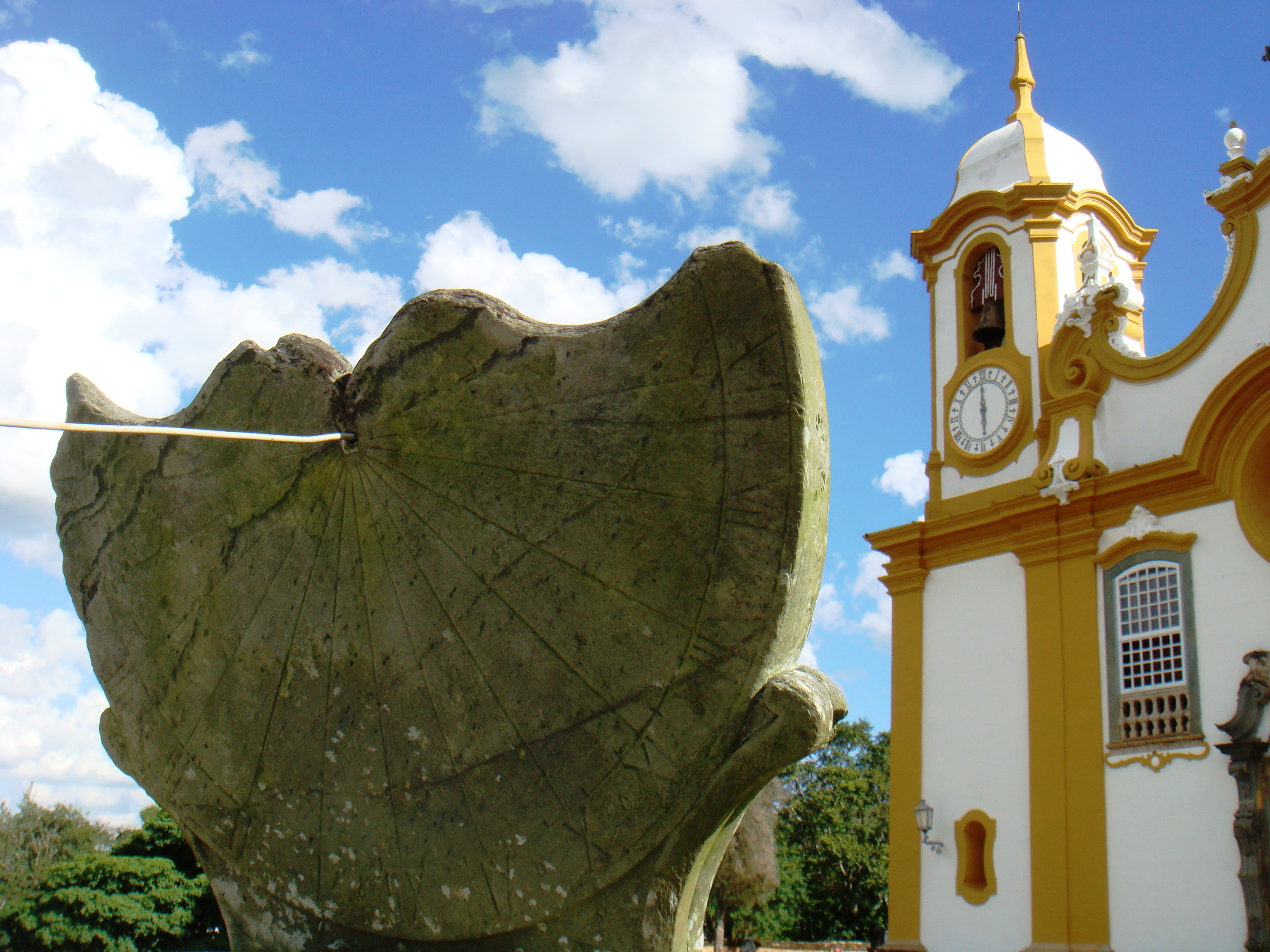 Sundial in Tiradentes, Brazil